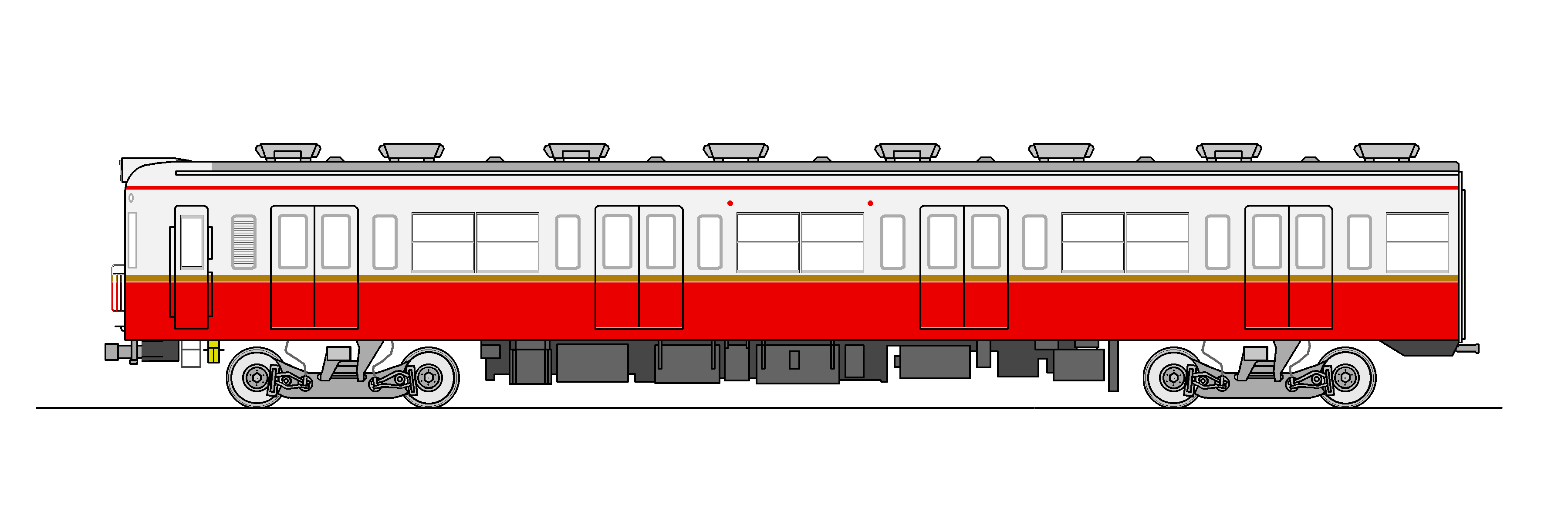 The side view of the EMU series 4000 of Odakyu Electric Railway.